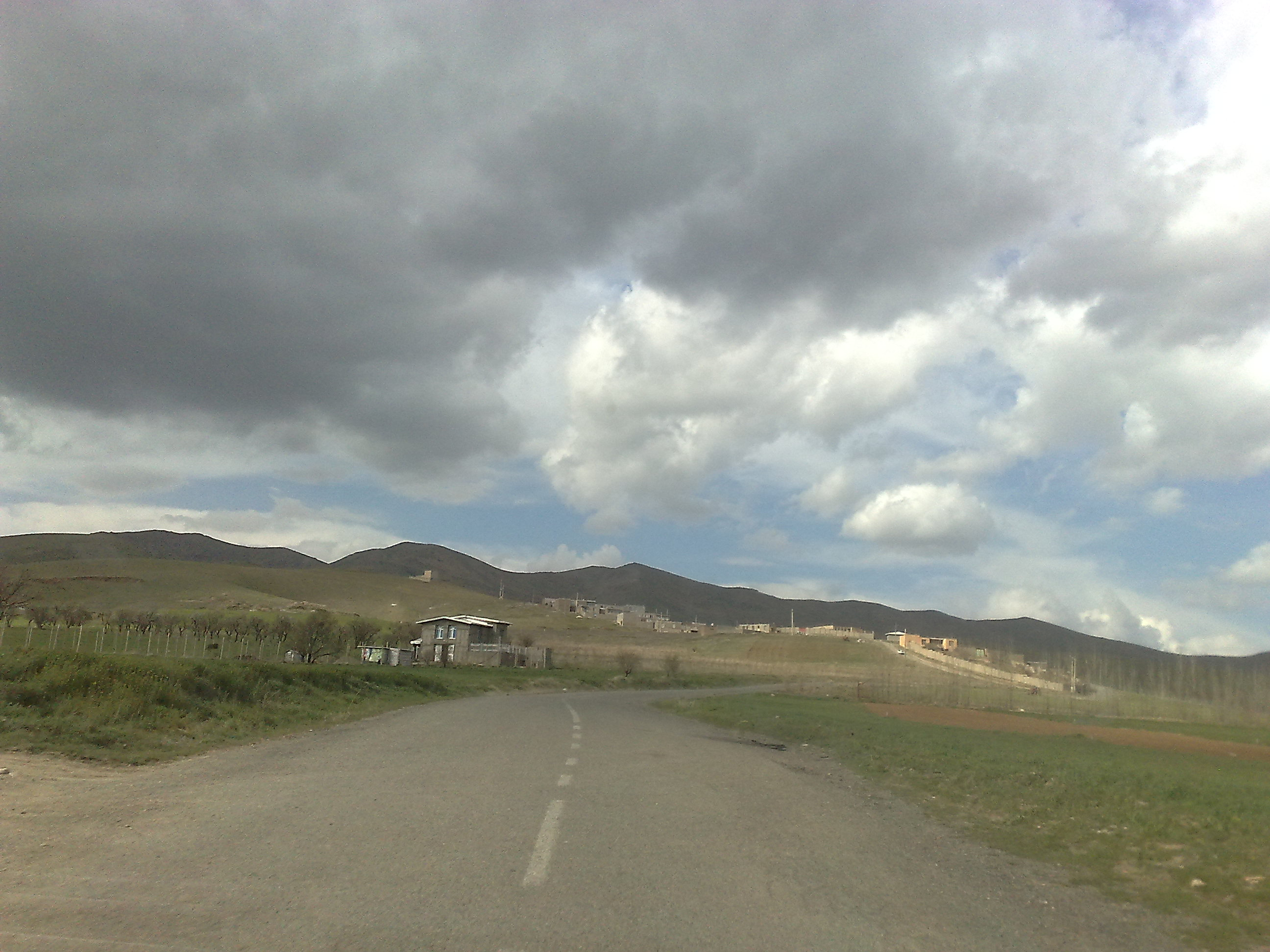 Iran - Kordestan Province - Saqqez - Qaylasoun